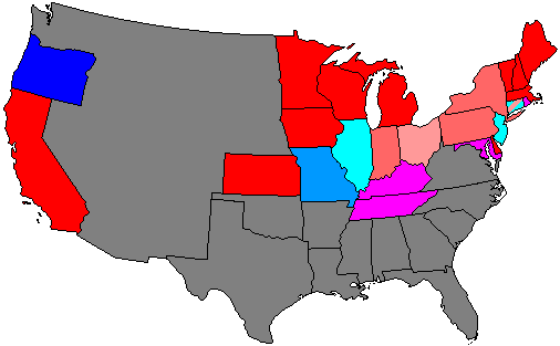 Summary of party control of U.S. house seats in the 37th United States Congress following election. Stripes indicate a tie between two or more parties. Legend: 80.1-100% Democratic seat majority 60.1-80% Democratic seat majority 60% or less Democratic seat plurality 60% or less Republican seat plurality 60.1-80% Republican seat majority 80.1-100% Republican seat majority 60% or less Unconditional Unionist seat plurality 60.1-80% Unconditional Unionist seat majority 80.1-100% Unconditional Unionist seat majority 60% or less Unionist seat plurality 60.1-80% Unionist seat majority 80.1-100% Unionist seat majority